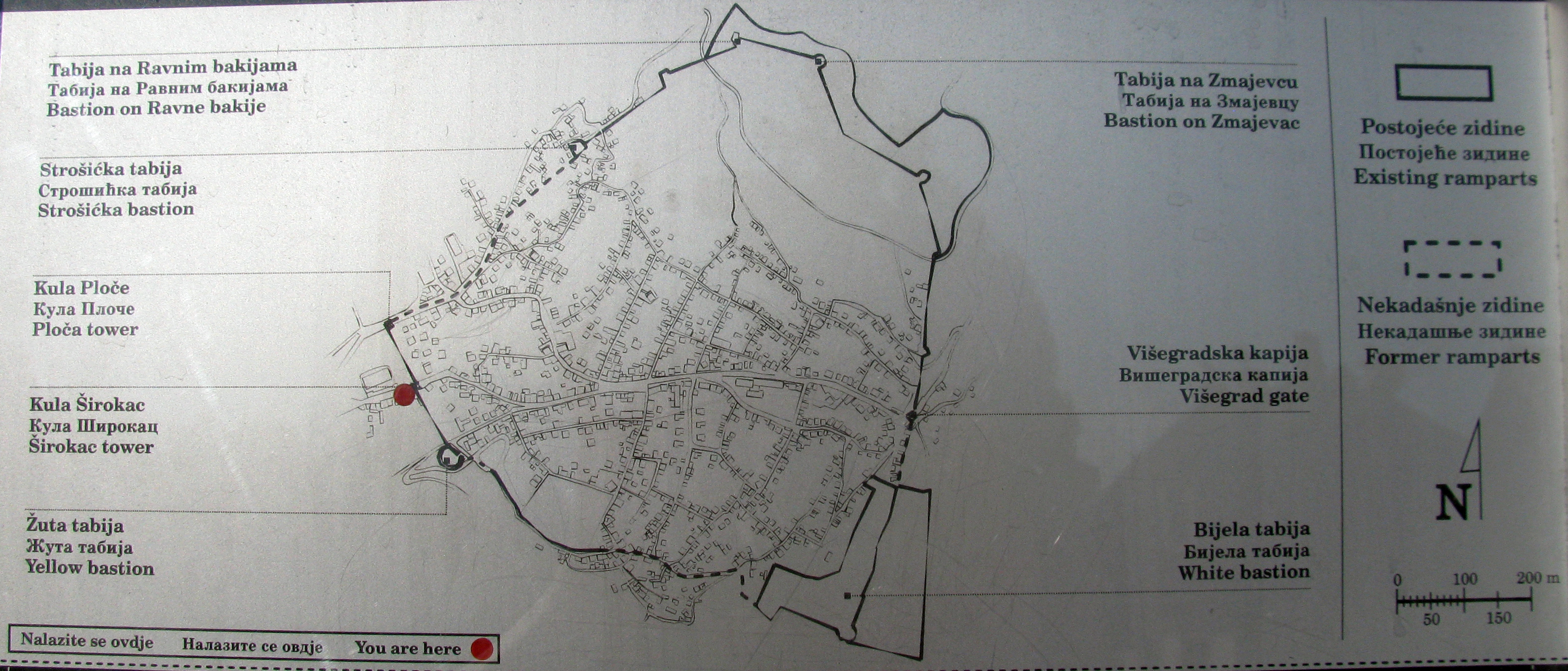 Stari grad Vratnik mapa